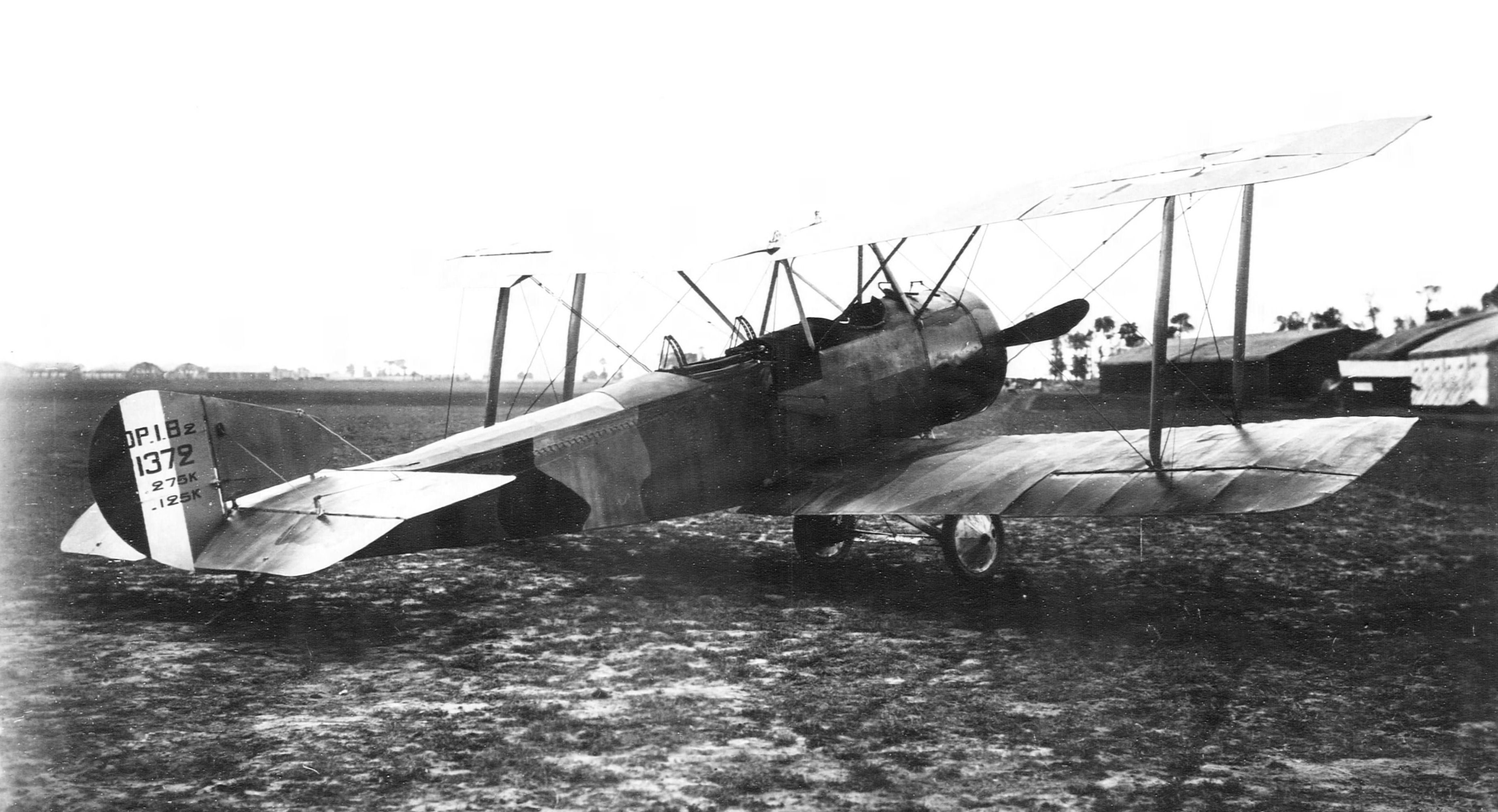 French-built Sopwith 1B.2 Strutter at Air Service Production Center No. 2, Romorantin Aerodrome, France, 1918